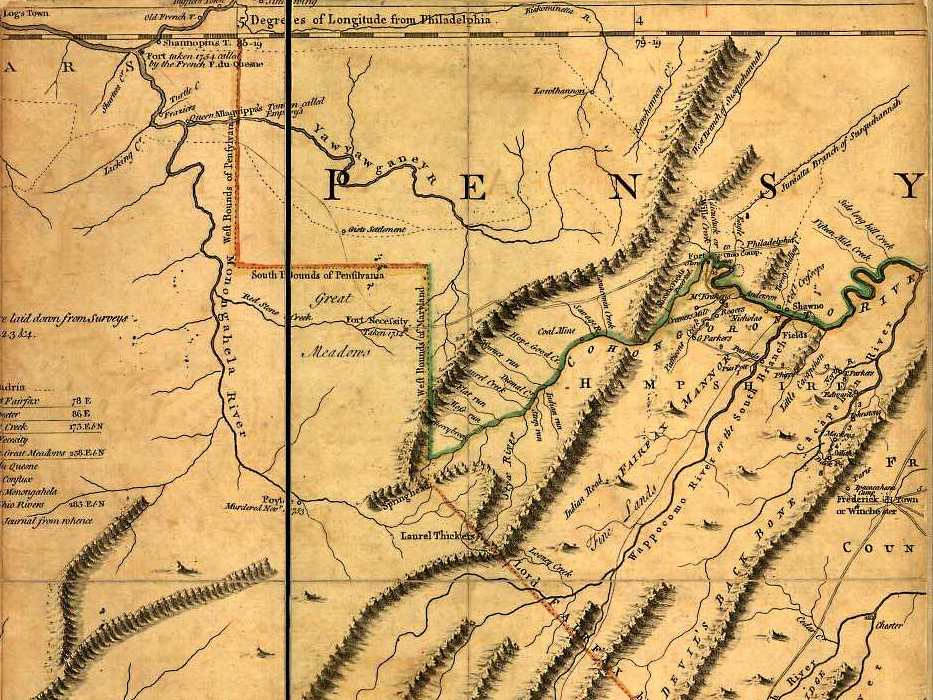 A map of the most inhabited part of Virginia containing the whole province of Maryland with part of Pennsylvania, New Jersey and North Carolina. Drawn by Joshua Fry & Peter Jefferson in 1751, published by Thos. Jefferys, London, 1755. (fragment)